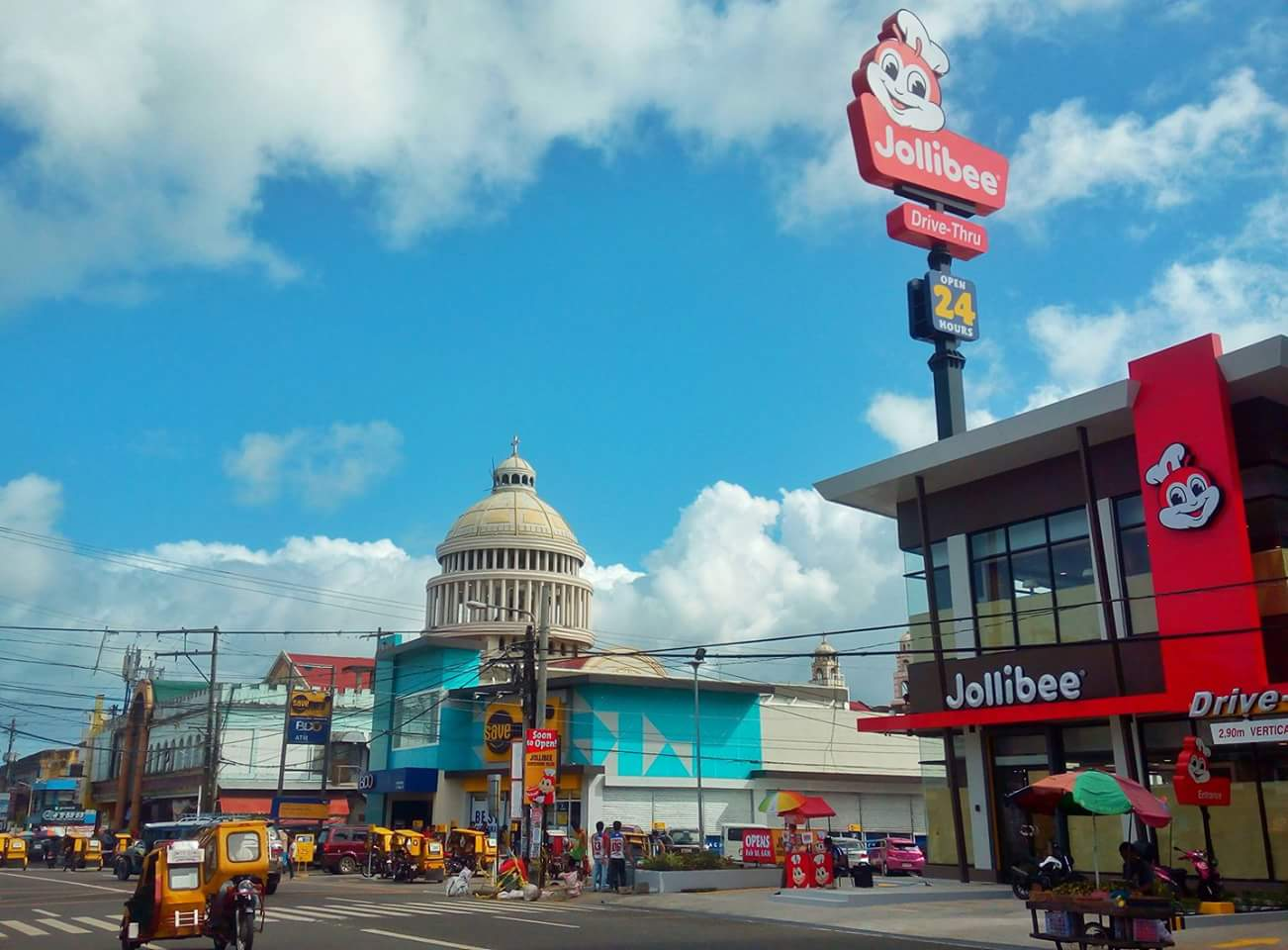 Rizal Street, Sorsogon City